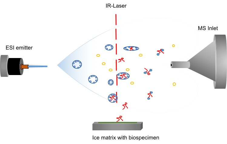 MALDESI set up using an ice matrix for biomolecules